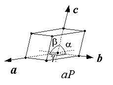 Mahlerite, drawn with OpenOffice 1.5